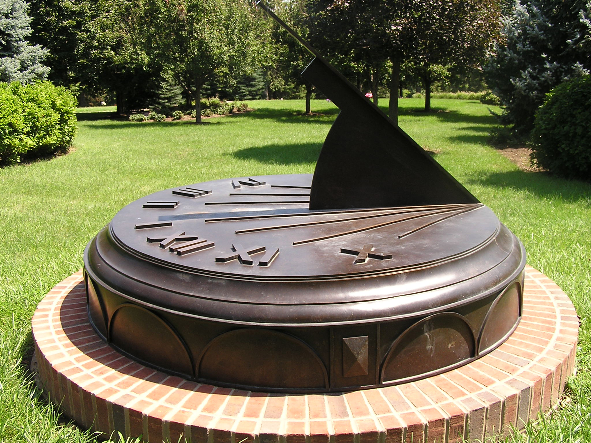 This is a bronze monumental sundial designed by John Carmichael at Sundial Sculptures. It is located a Forest Lawn Cemetary in Omaha Nebraska USA.